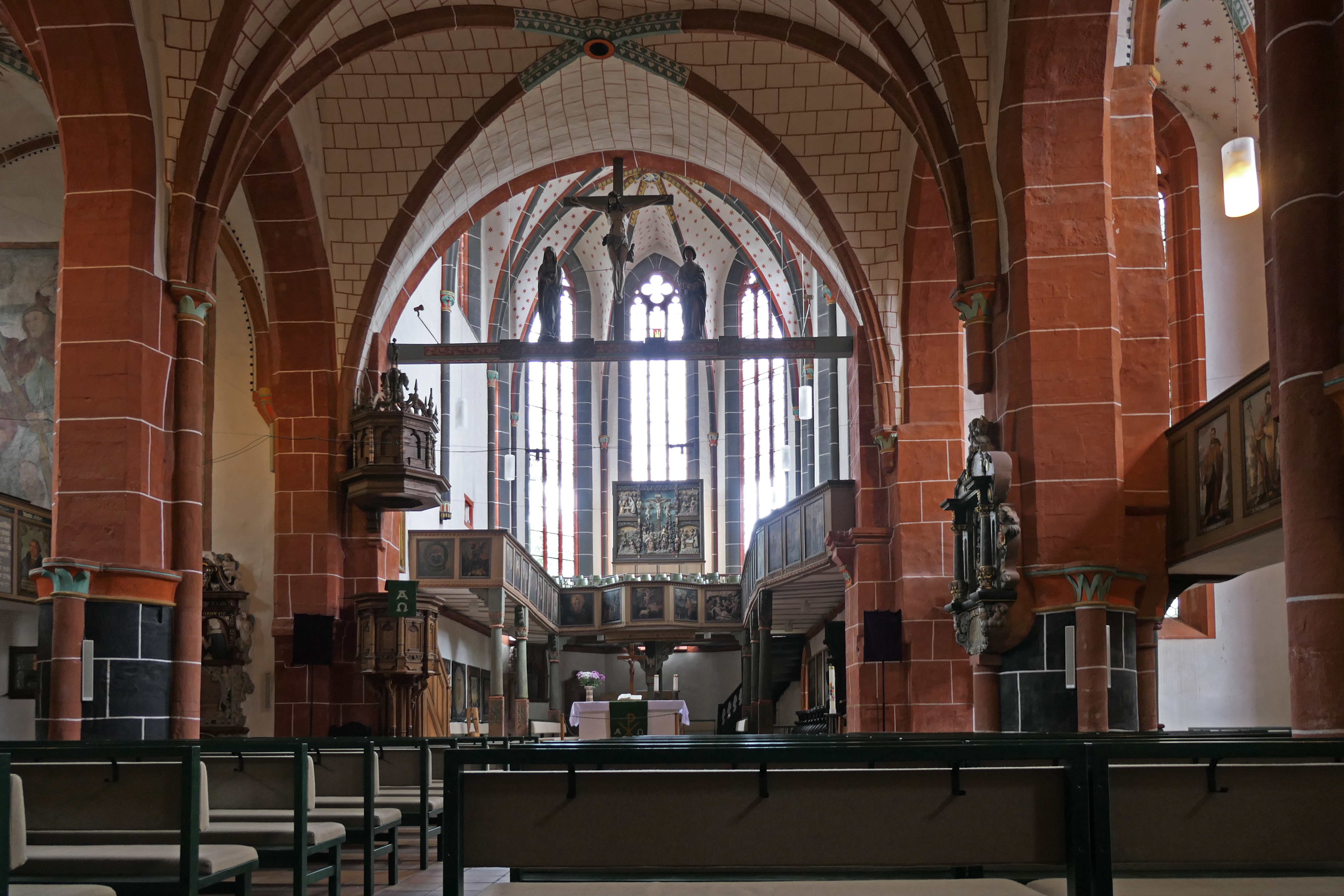 Walpurgis Church Alsfeld, Germany, interior